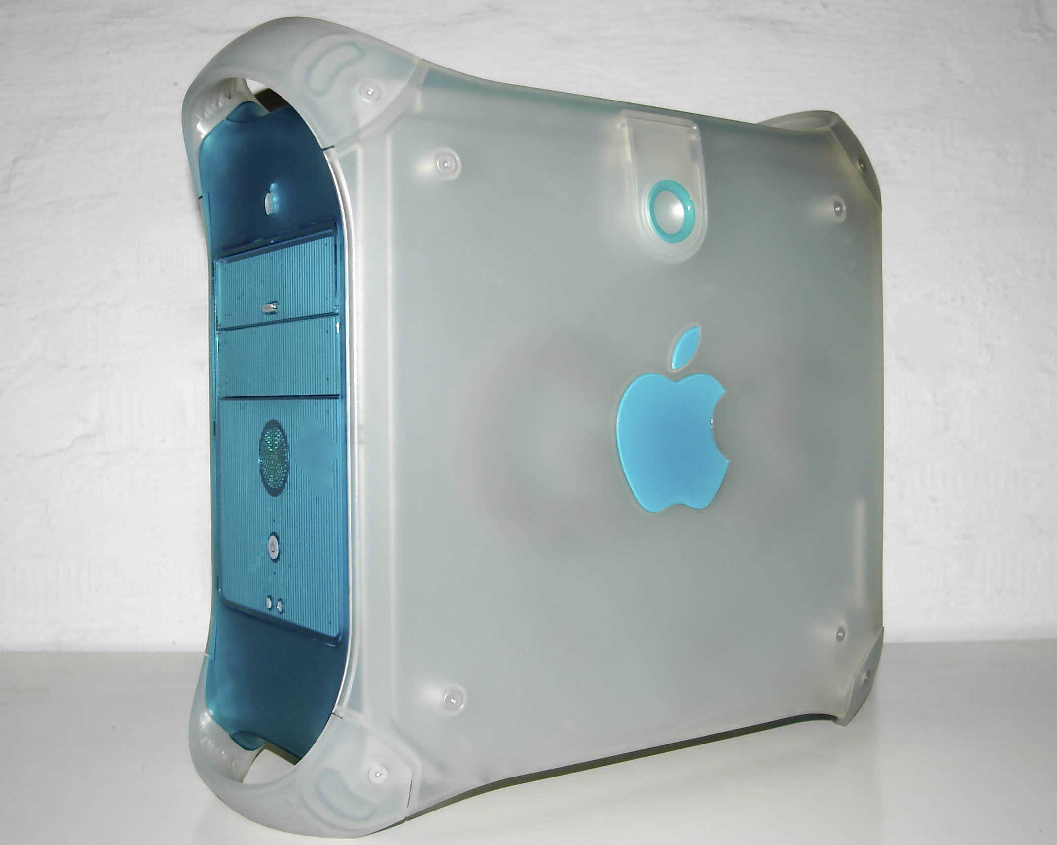 Apple PowerMac G3 Yosemite